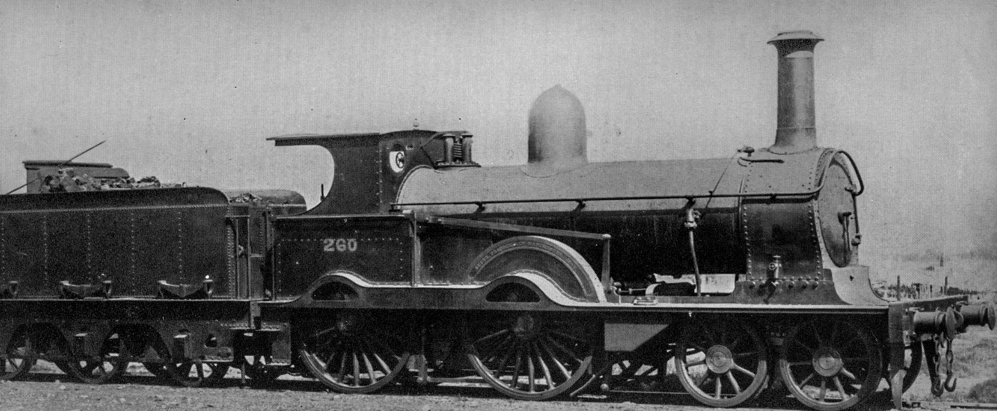 NSWGR D.255 Class Locomotive 4-4-0 Passenger Type